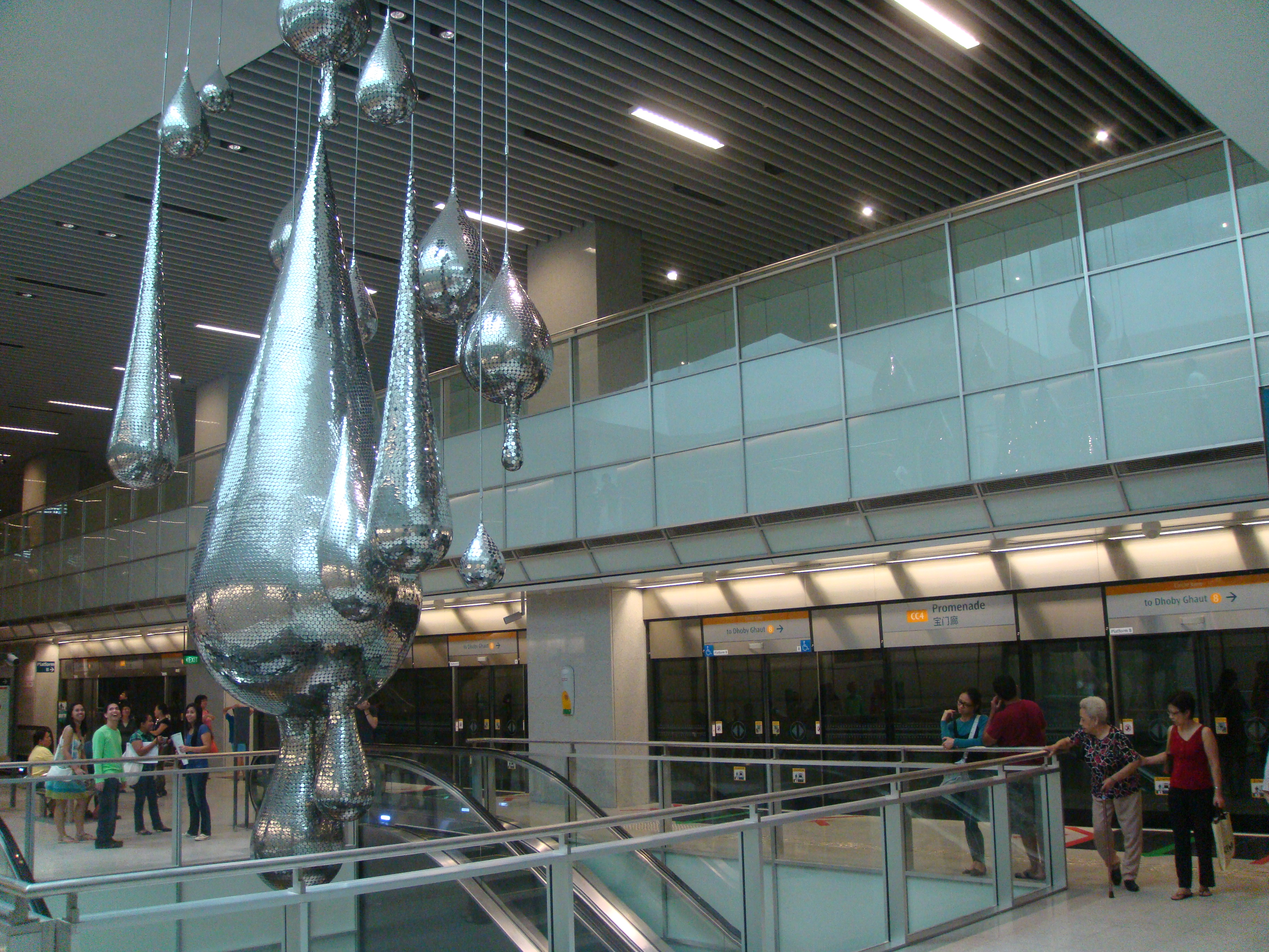 Circle Line platform of Promenade MRT Station, taken on the LTA Circle Line Discovery II Open House.